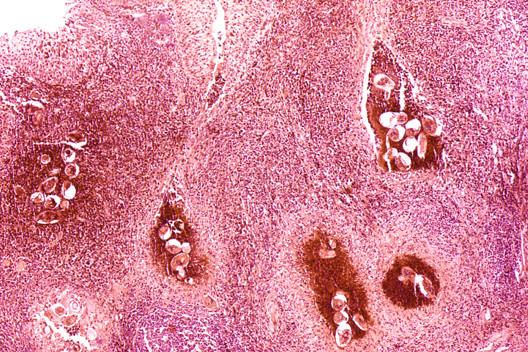 Histopathology of schistosomiasis haematobia, bladder Histopathology of bladder shows eggs of Schistosoma by intense infiltrates of eosinophils and other inflammatory cells. Parasite.